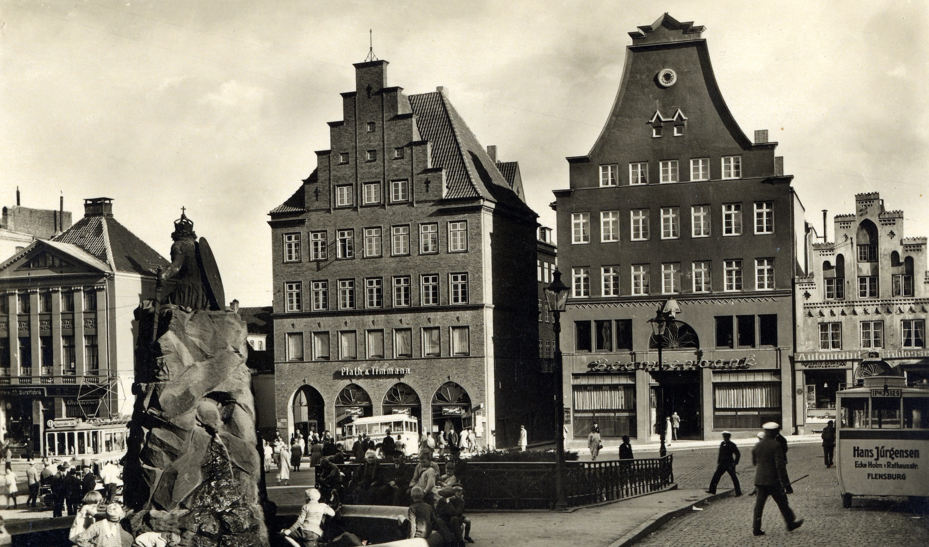 Flensburgs Südermarkt, on the left the beginning of Angelburger street; the bigger building in the middle is Südermarkt 7 (by architect Paul Ziegler in 1928), (Flensburg,Germany); also to see the Bismarck well and the streetcar